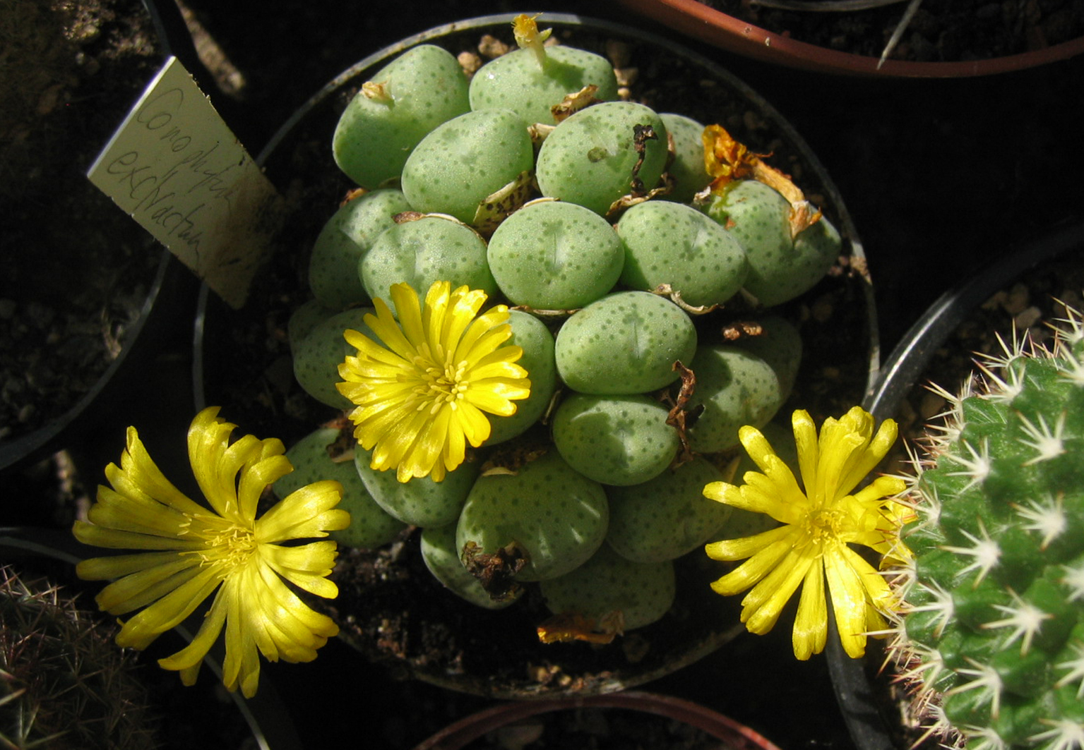 Conophytum extraktum Own foto, taken in september 2006; collection of plants at Hockenheim, Germany